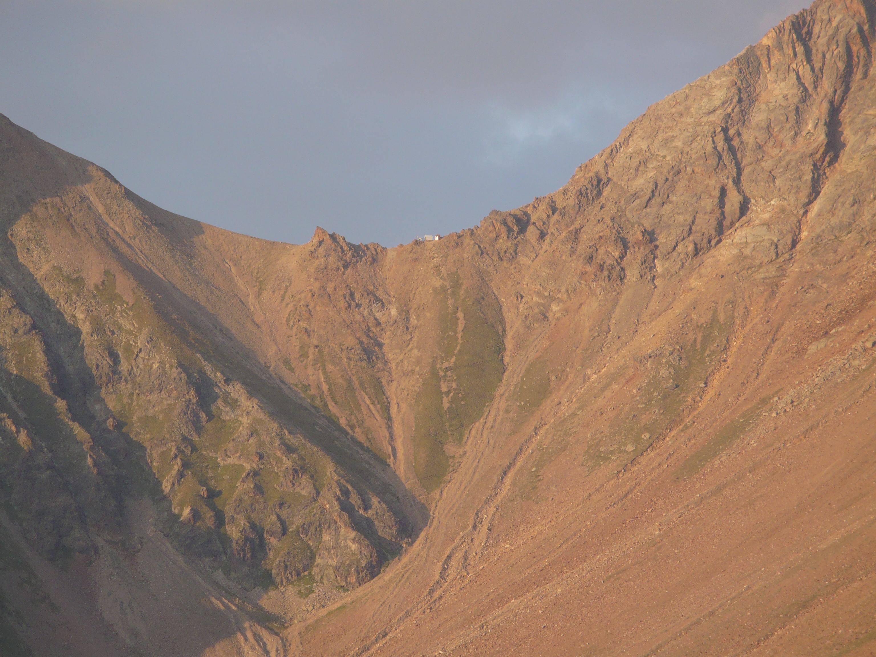 Col Carrel - Graian Alps - Aosta Valley - Italy